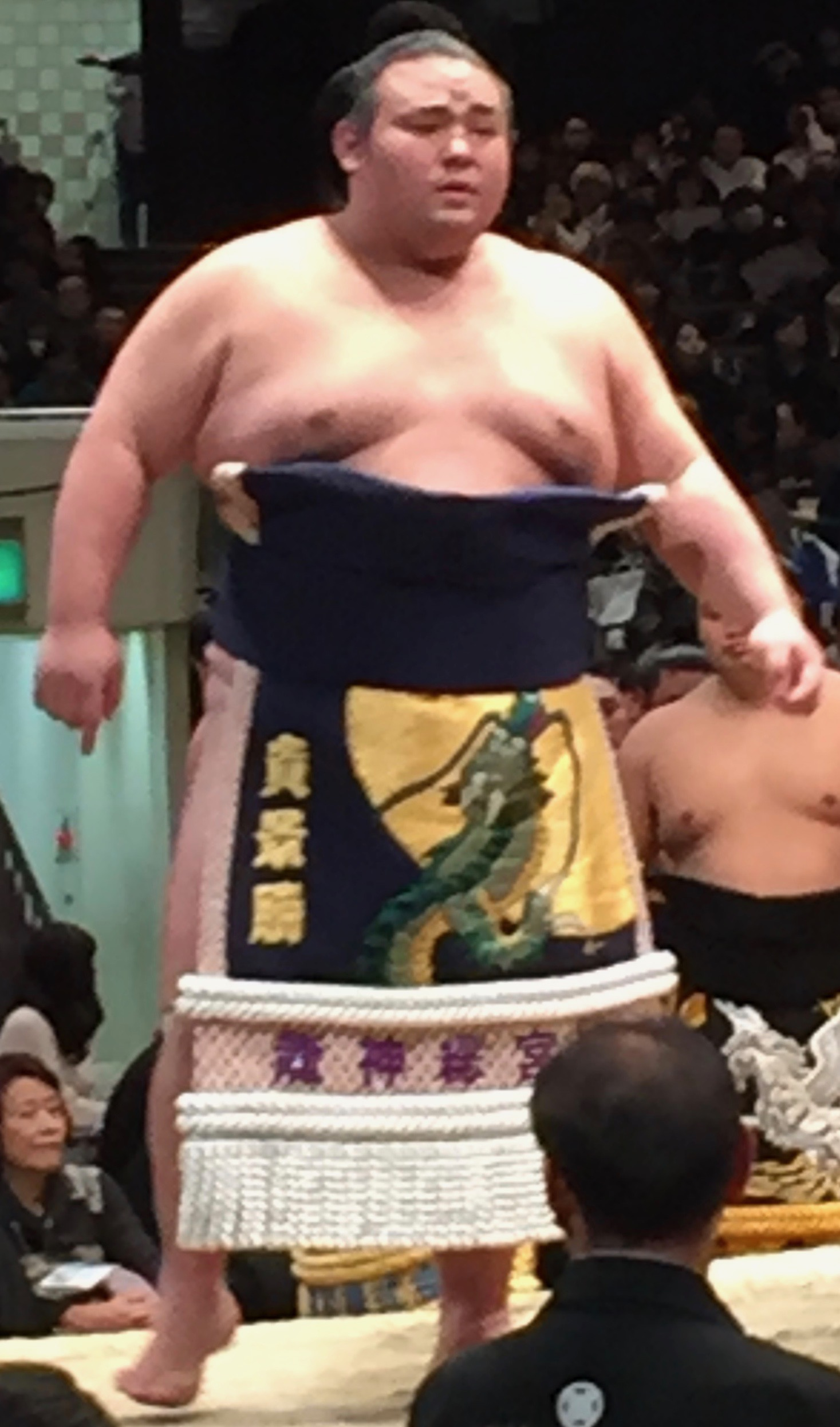 taken at 2017 January tournament